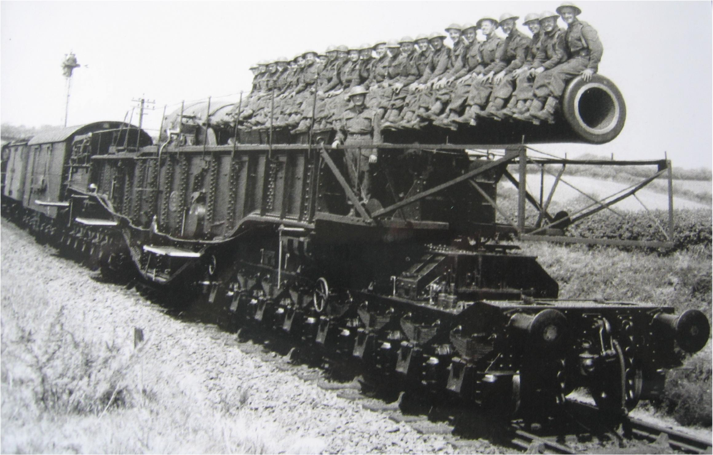 Crew and British BL 18 inch railway howitzer at Ashbury Station prior to firing into Okehampton Artillery Range.